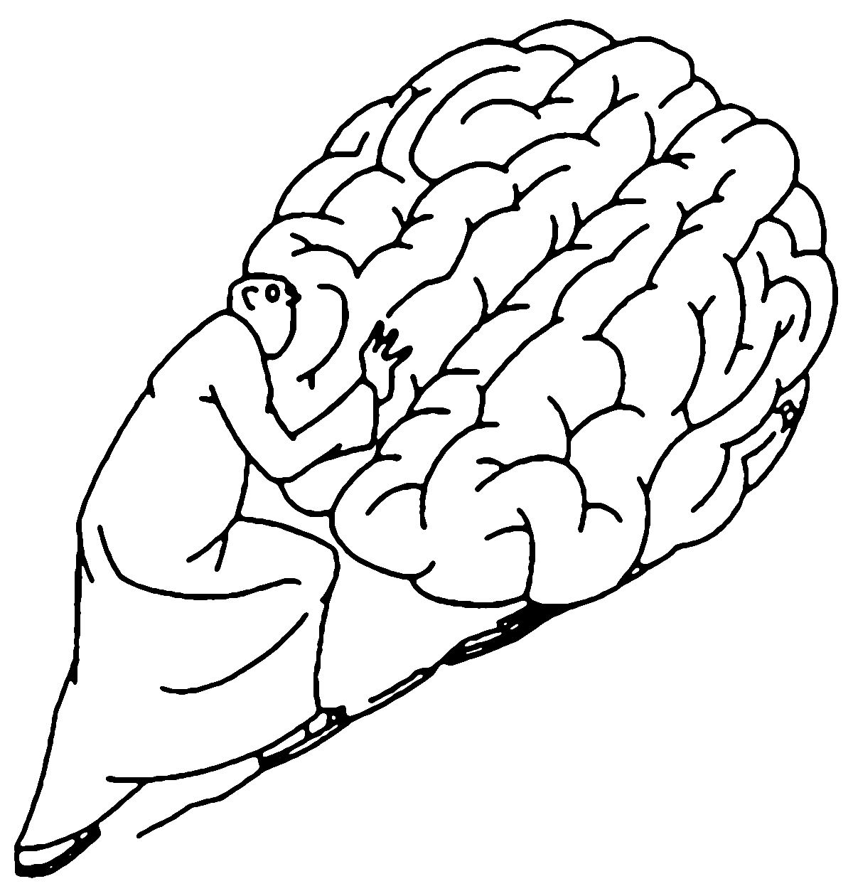 Logo of Czech Skeptics' Club Sisyfos